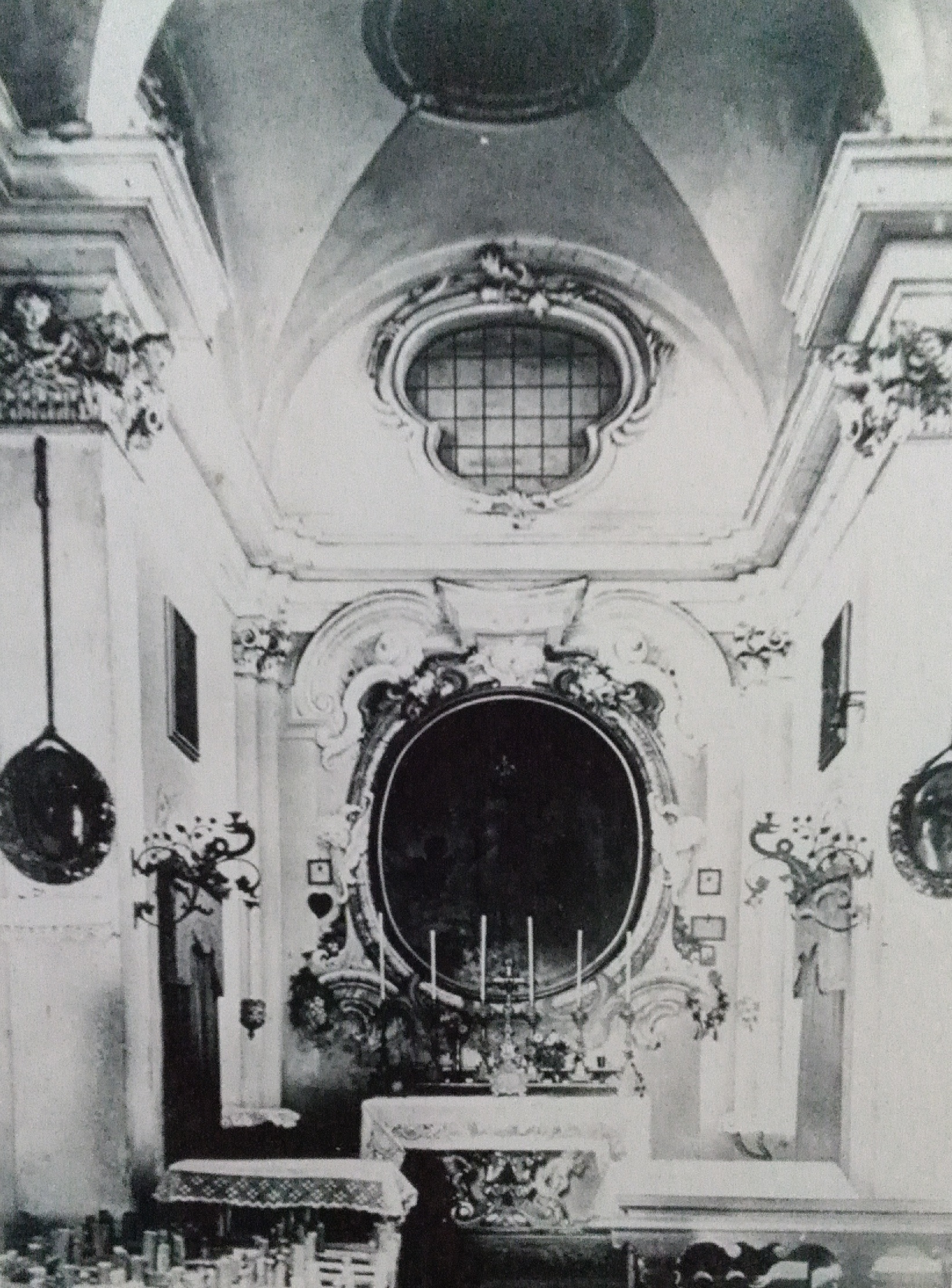 chapel